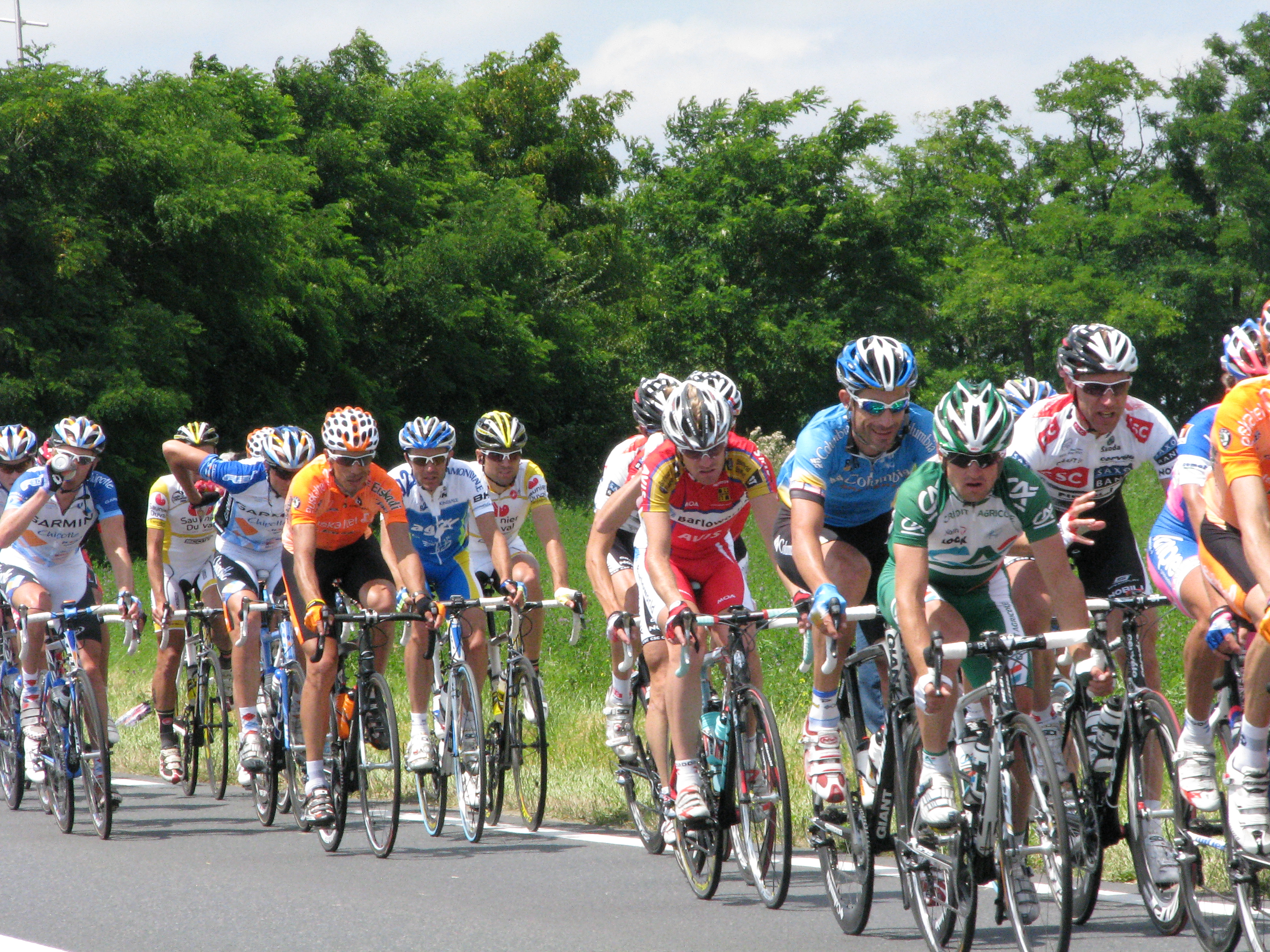 The Tour de France passing through the town of LOUDUN in the Vienne department, France.